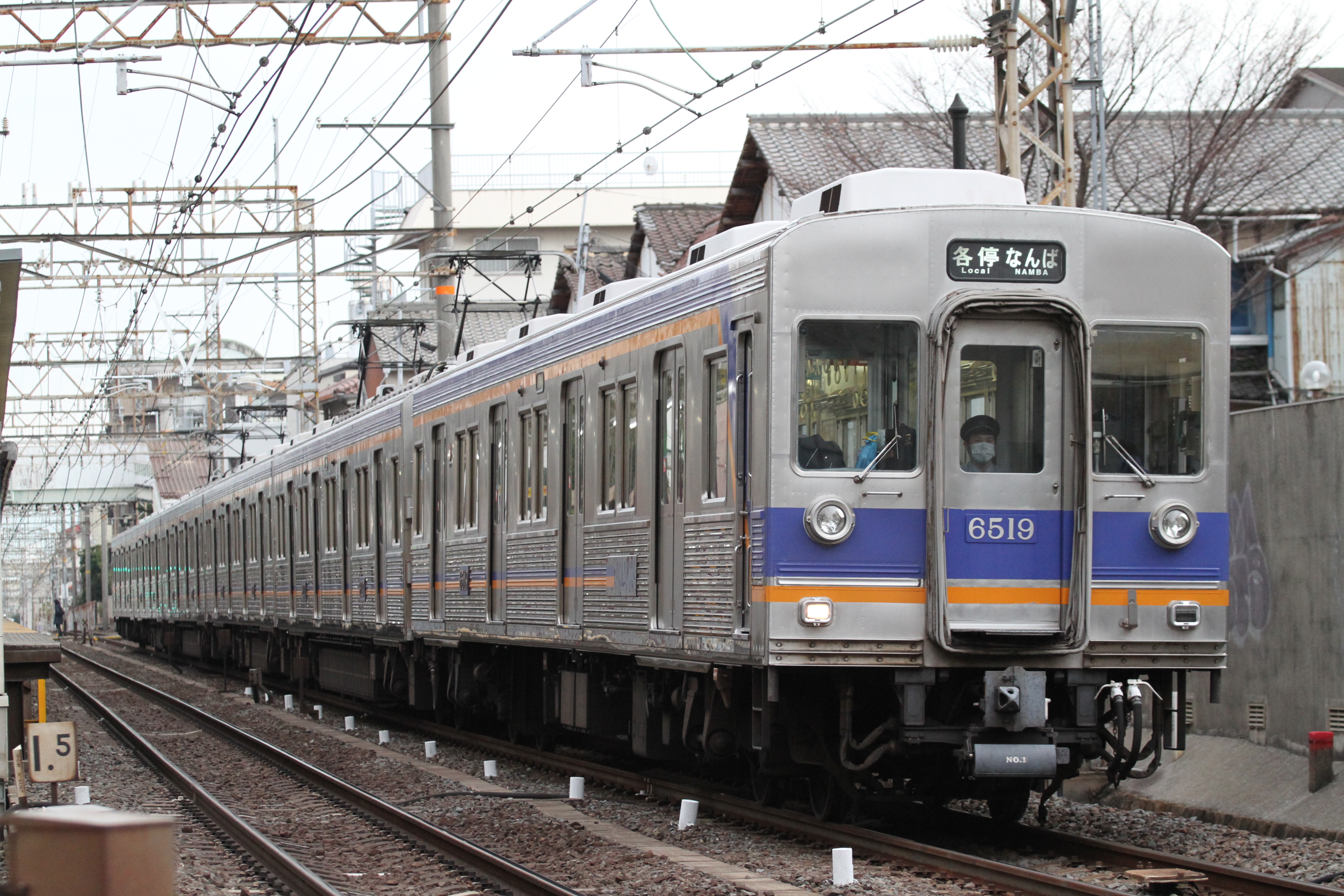 Nankai 6200 series EMU set 6519 near Tezukayama Station